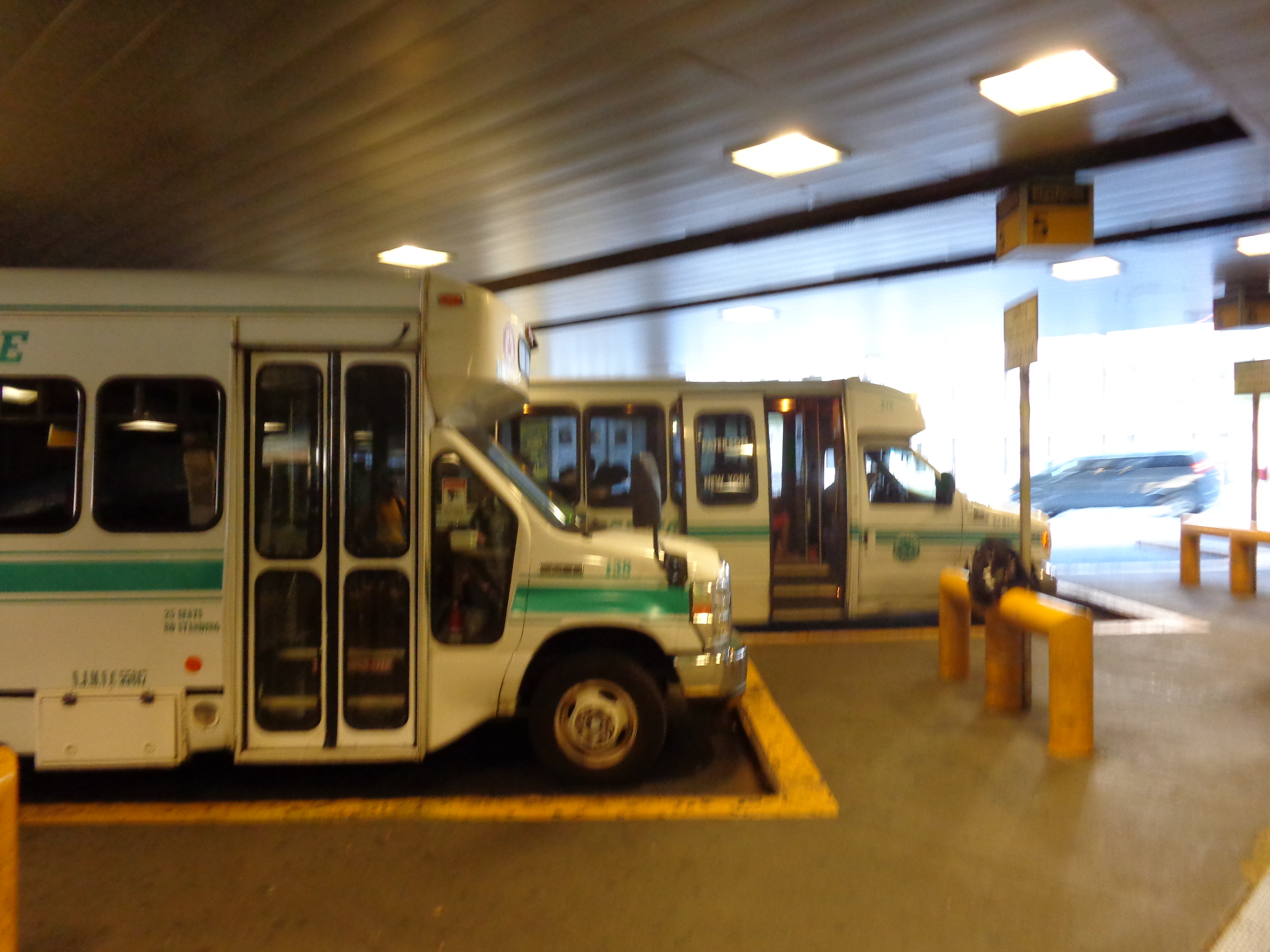 Jitneys serving Northern New Jersey at George Washington Bridge Bus Station in Upper Manhattan, New York